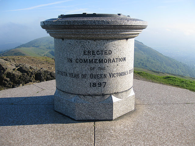 Diamond Jubilee Toposcope Erected to commemorate Victoria's Diamond Jubilee, this looks almost as good as new. North Hill in the distance.